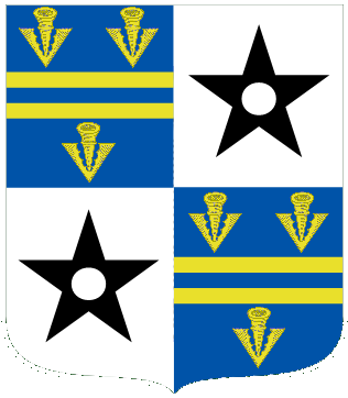 Shield of arms of The Right Honourable John Smith (1565-1723)